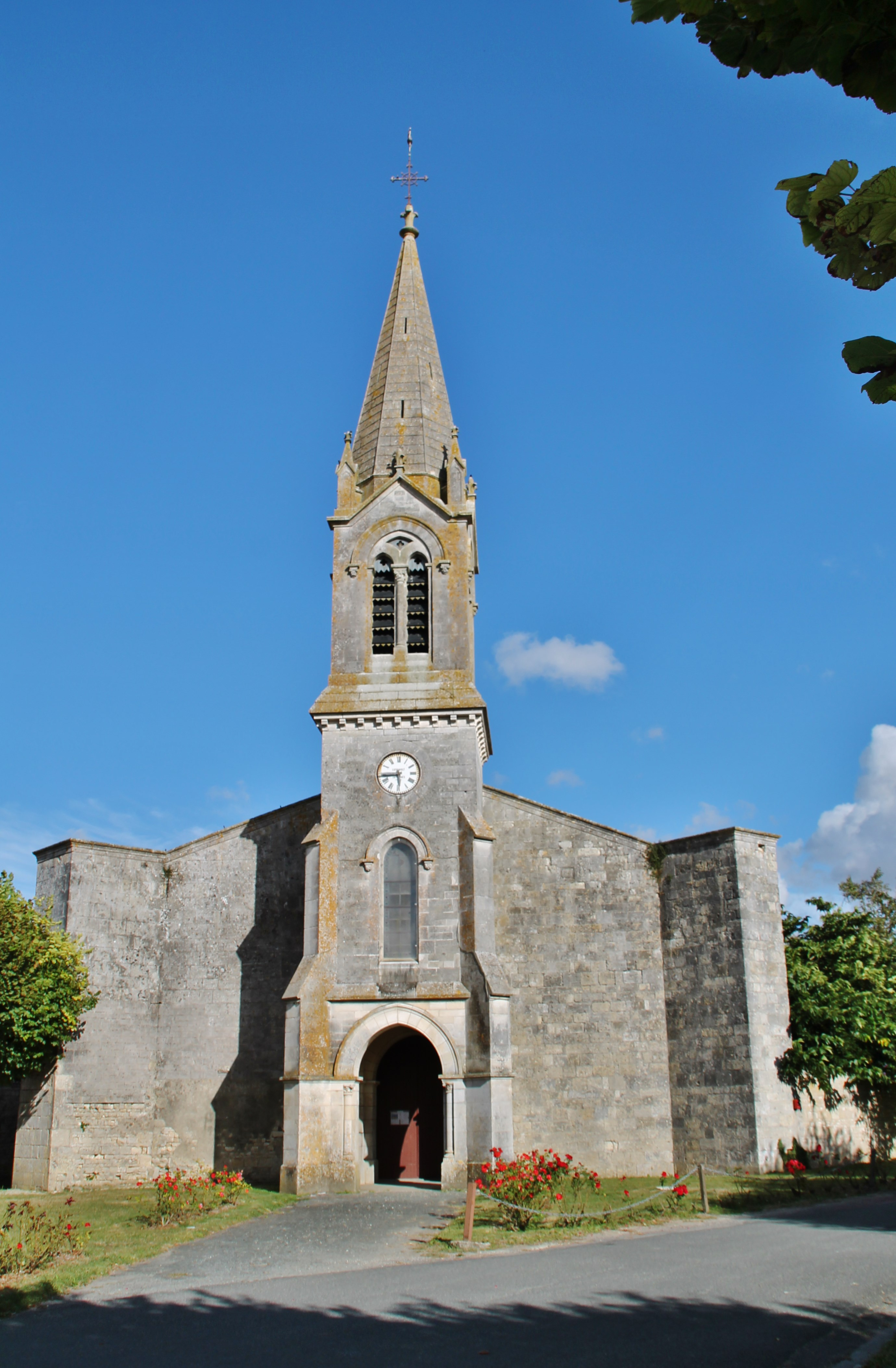 église Ste Catherine